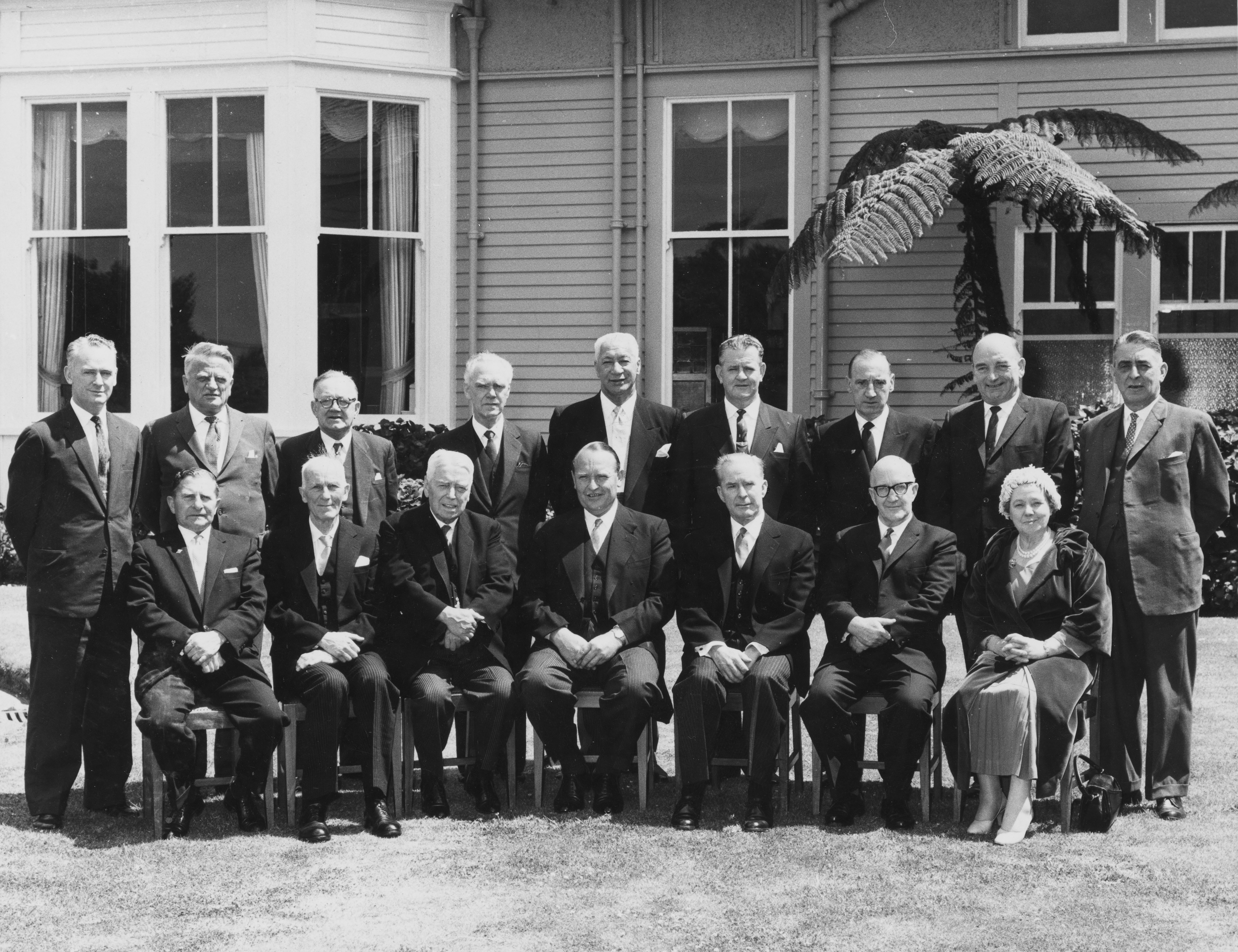 Labour Members of Parliament with Viscount Cobham at Government House, photographed December 1960 by an Evening post photographer. Sir Eruera Tirikatene is in the centre of the back row. In the front row, Walter Nash is 3rd from left, Viscount Cobham is 4th from left, and Mabel Howard is at the extreme right.